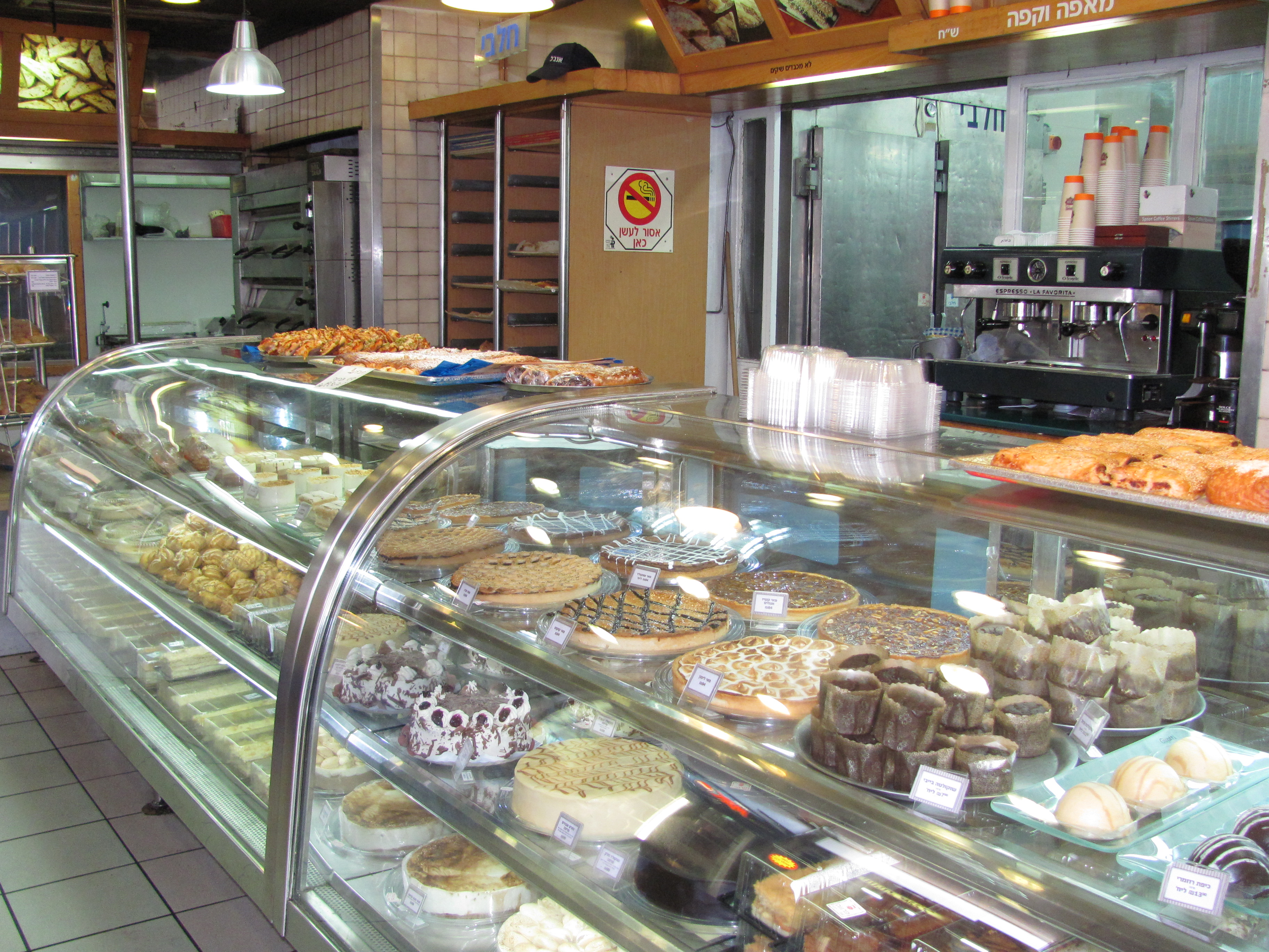 Interior of Angel Bakeries factory store at the corner of Beit Hadfus and Farbstein Streets in Givat Shaul, Jerusalem.